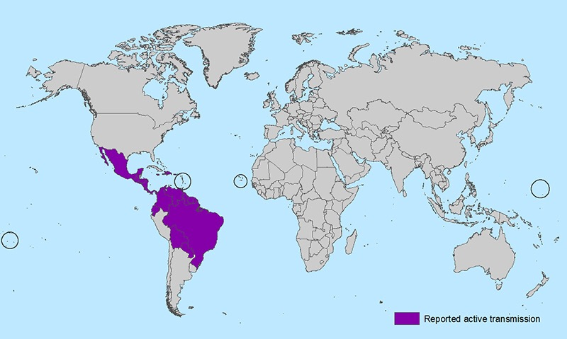 All countries and territories with active Zika Virus transmission, as of 23 February 2016